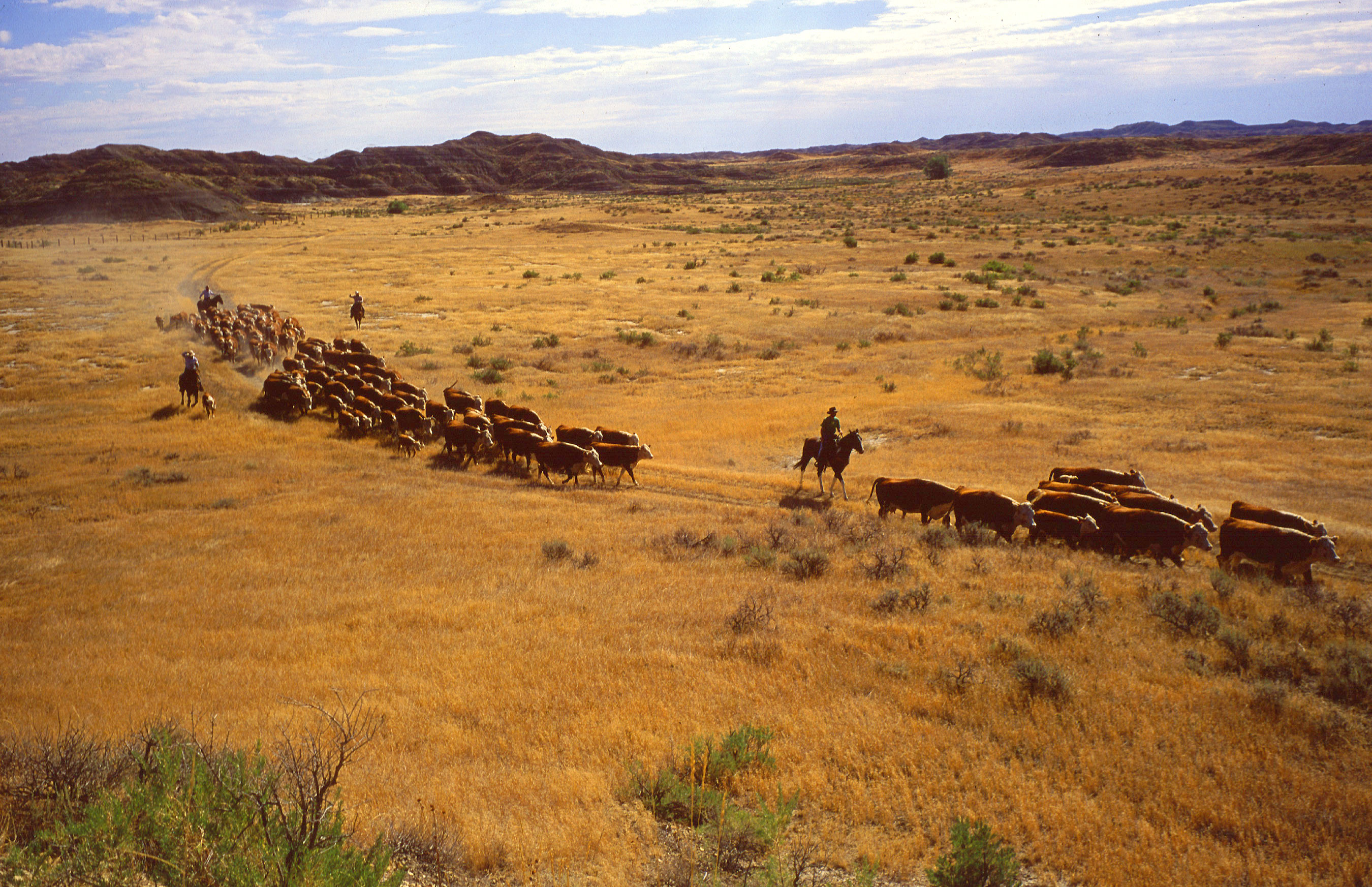 Cattle roundup at the Fort Keogh Livestock and Range Research Station in southeastern Montana. At this station, one of the largest livestock research facilities in the world, researchers help to ensure a plentiful supply of meat while protecting the rangeland environment. USDA photo by Jack Dykinga. Image Number K3908-1.